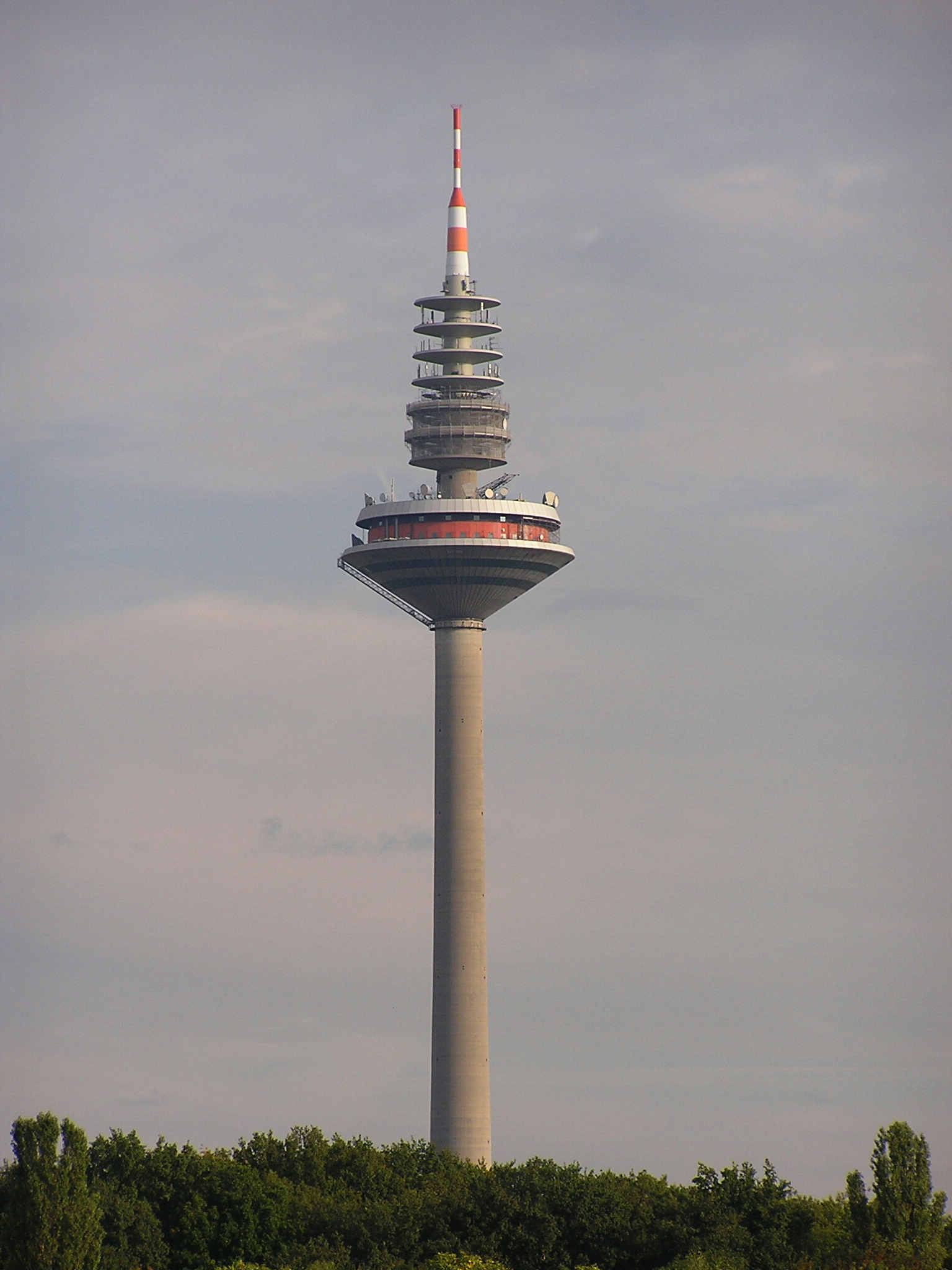 The Europaturm in Frankfurt